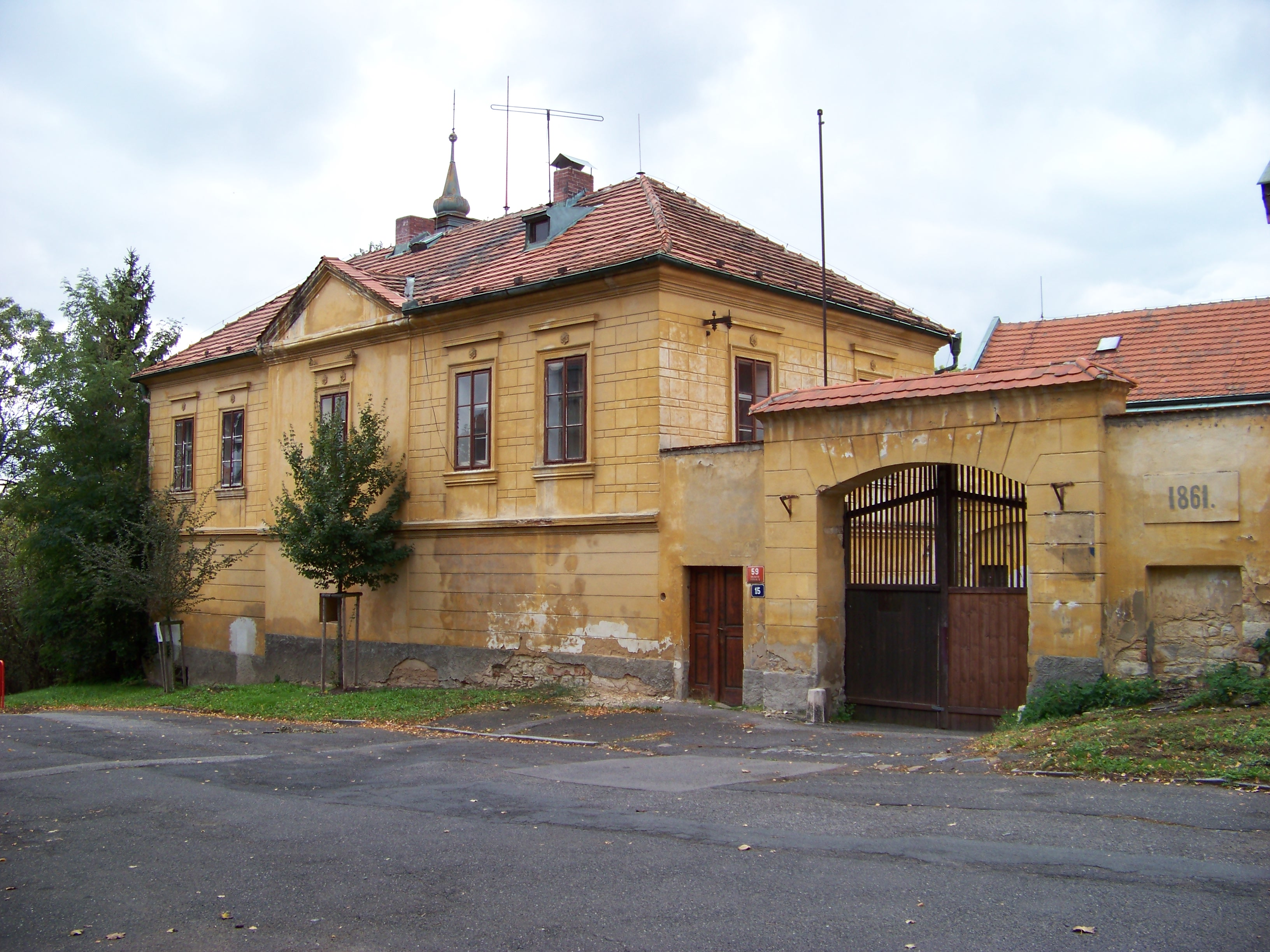 Prague-Dejvice, the Czech Republic. Na Pernikářce 59/15, Pernikářka homestead.